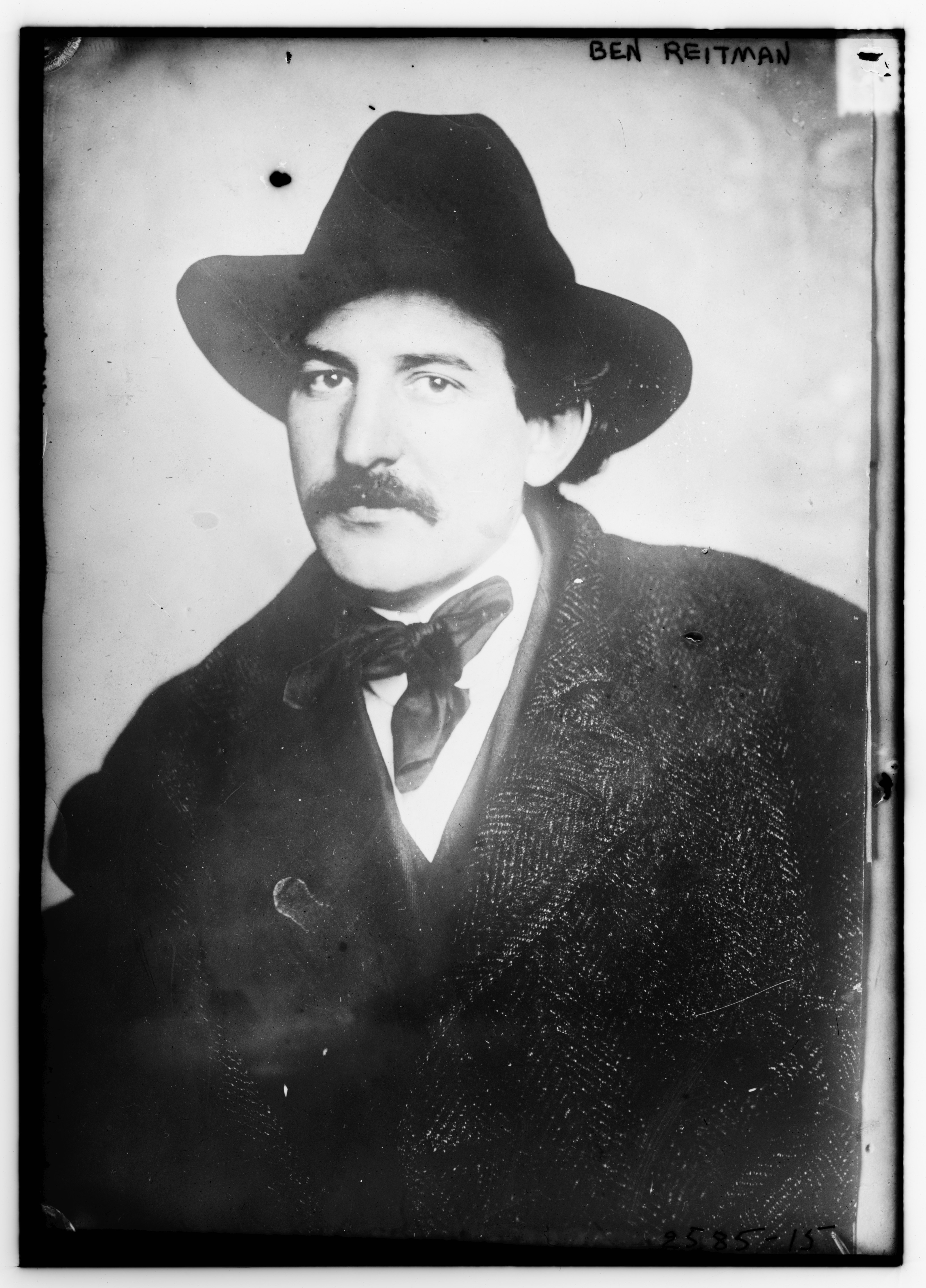 Title: Ben Reitman Abstract/medium: 1 negative : glass ; 5 x 7 in. or smaller.